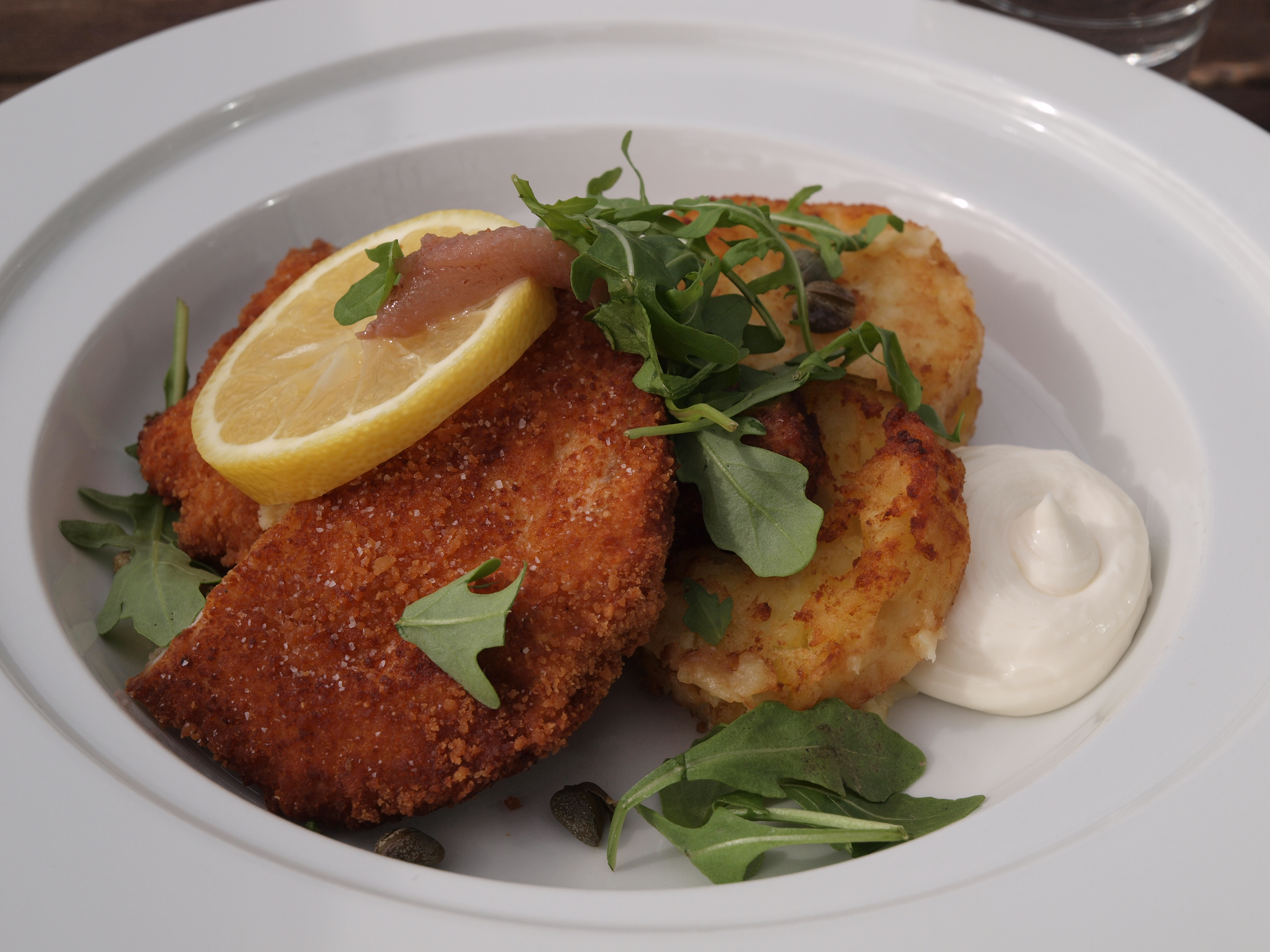 A Wiener Schnitzel with a slice of lemon and a slice of herring, served with potato pancakes, at restaurant Faro in Ruoholahti, Helsinki, Finland.